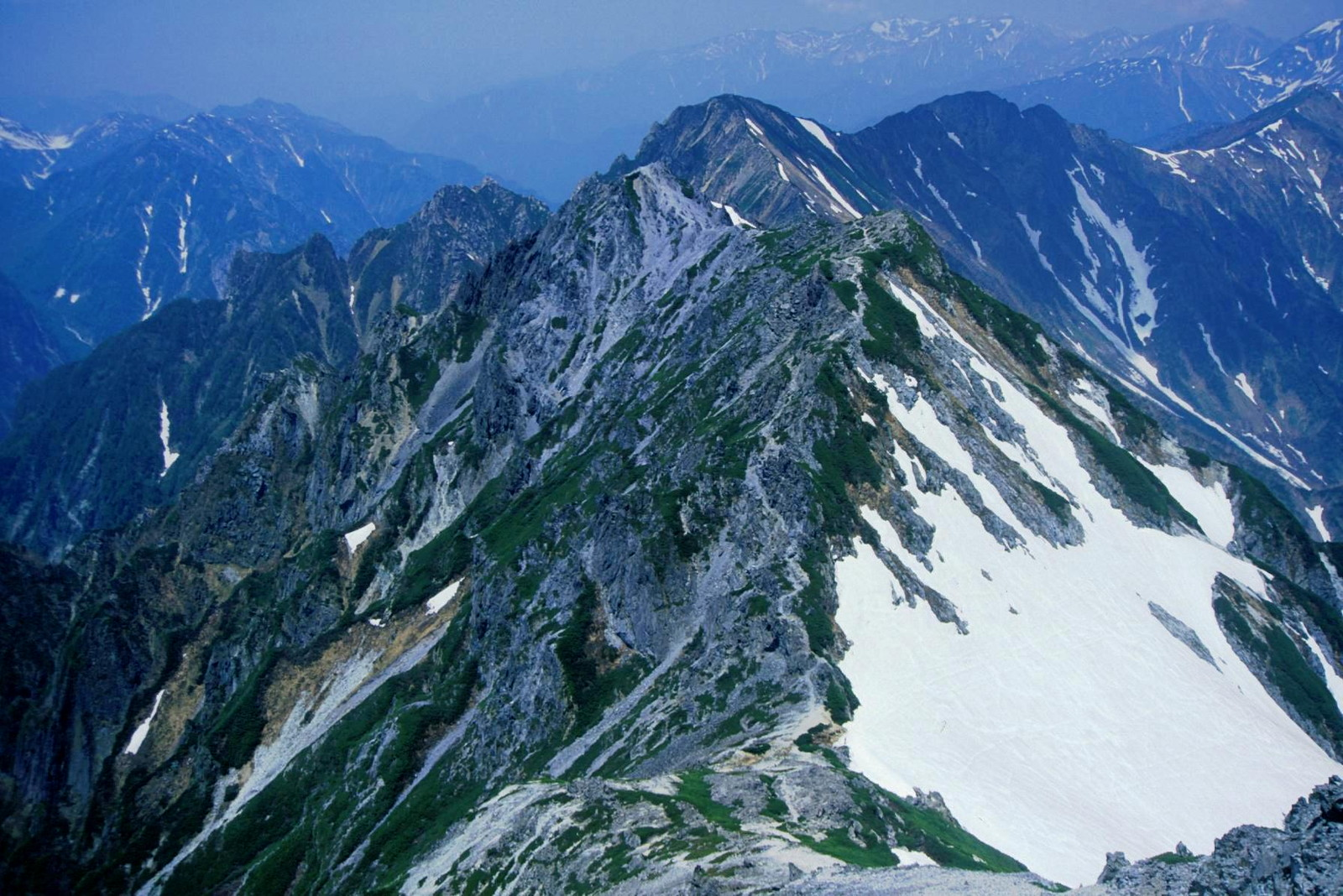 Mount Subari from Mount Harinoki in Hida Mountais, Japan.